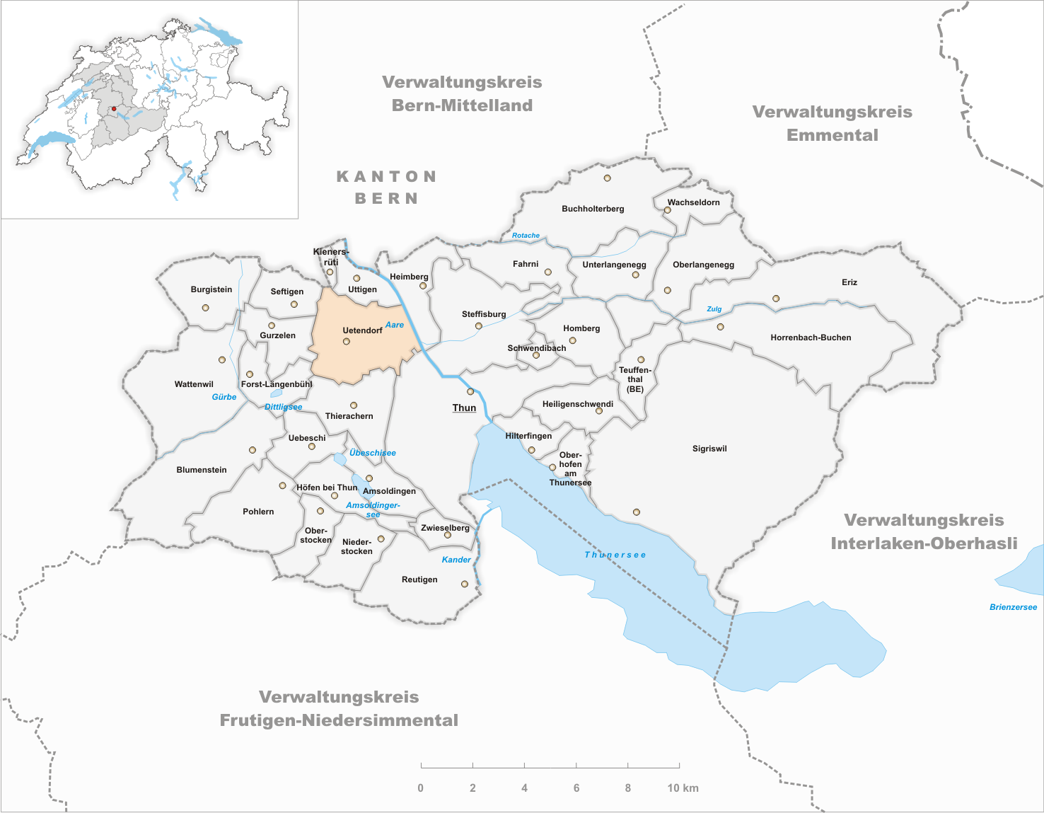 Municipality Uetendorf